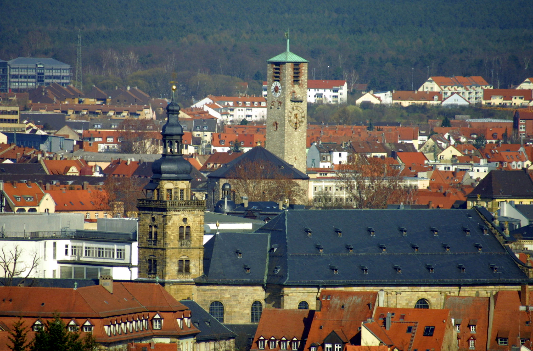 sights of Bamberg, Germany